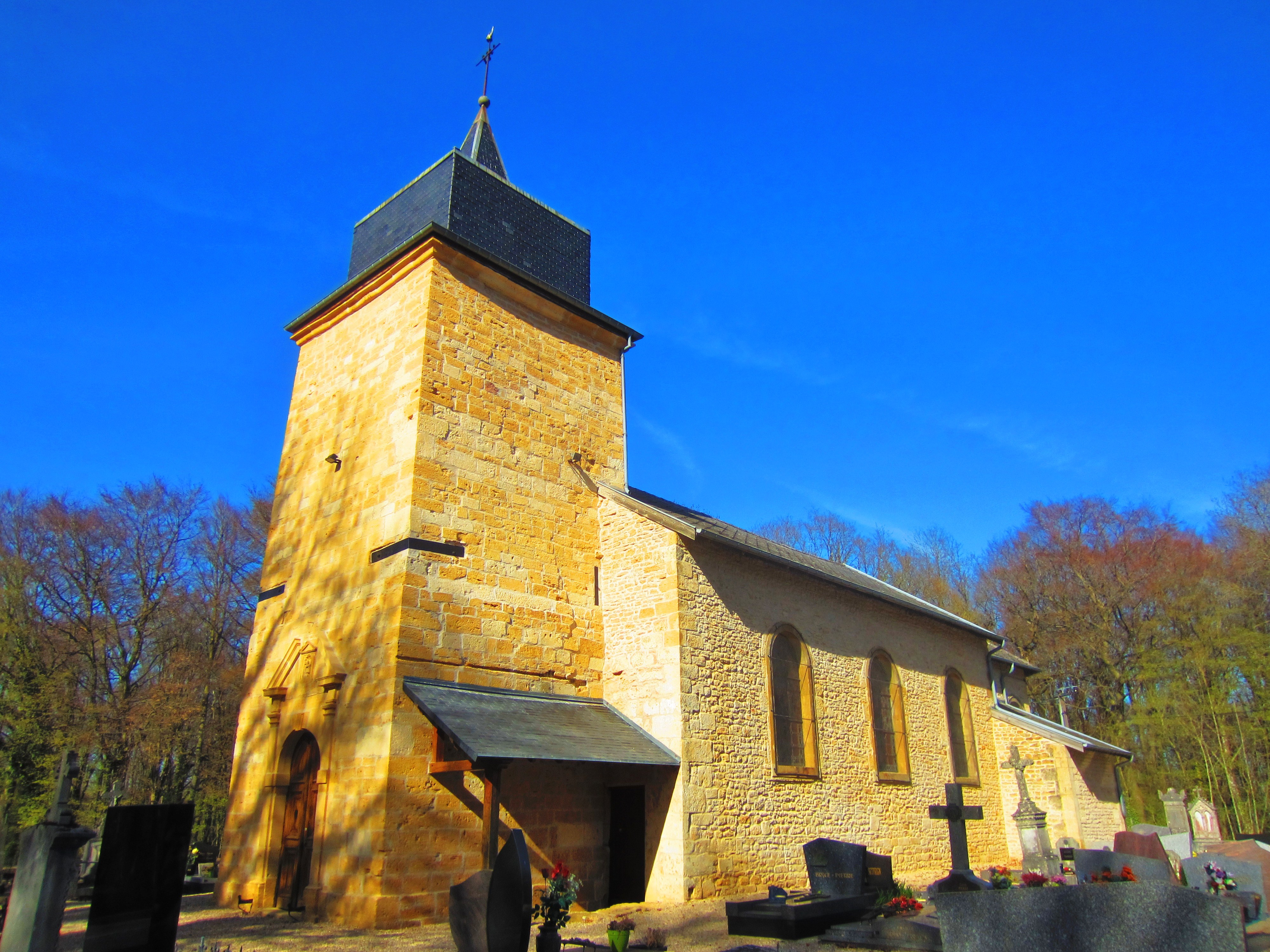 Ville Houdlemont church